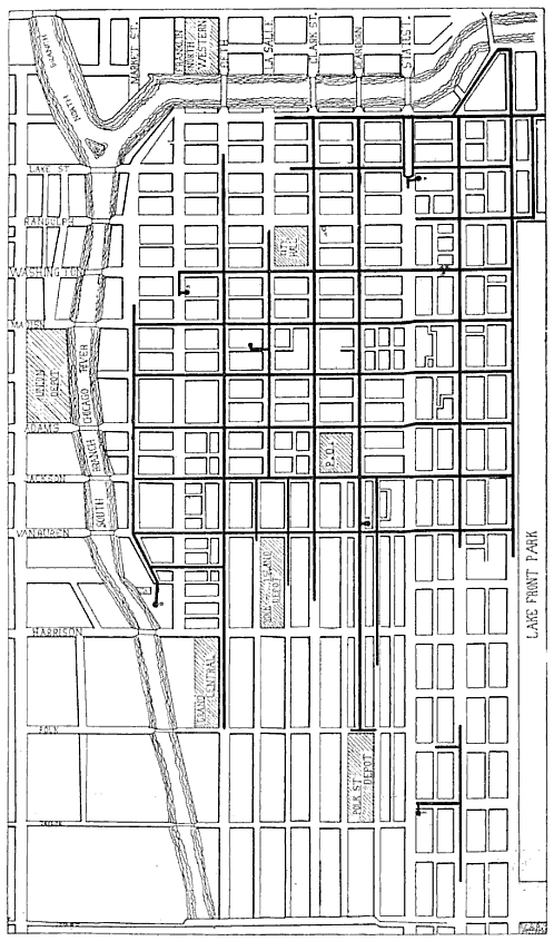 Original Caption: "Showing Conduits as Completed Sept 1. 1902." Retouched to remove spots and improve legibility. The short side spurs terminating in dots are the shafts used to construct the tunnel system.